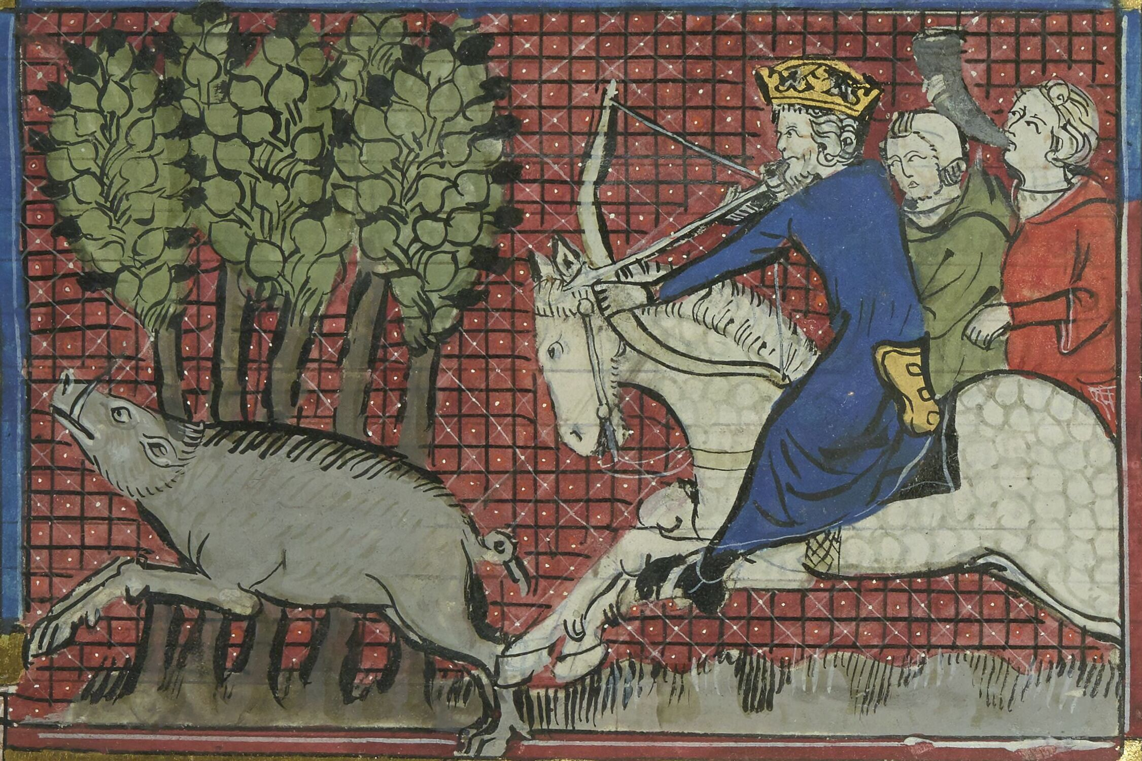 Miniature: John II Comnenus hunting